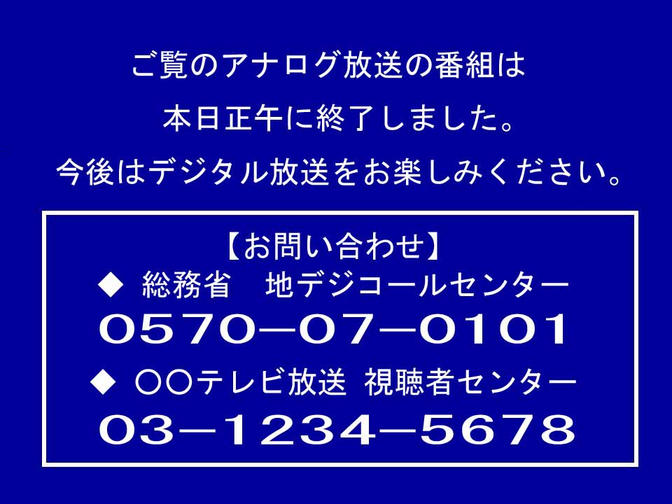 This file depicts the example of the analog shutdown warning broadcast in Japan. Text reads: "These analog broadcast programs ended at noon today. Please enjoy digital broadcasting's future." Anarogu hoso in yellow, final part of first sentence in pink and dejitaru hoso in light blue for second sentence to match NHK analog shutdown caption. Phone numbers for MIC DTB call center, local television call center added.